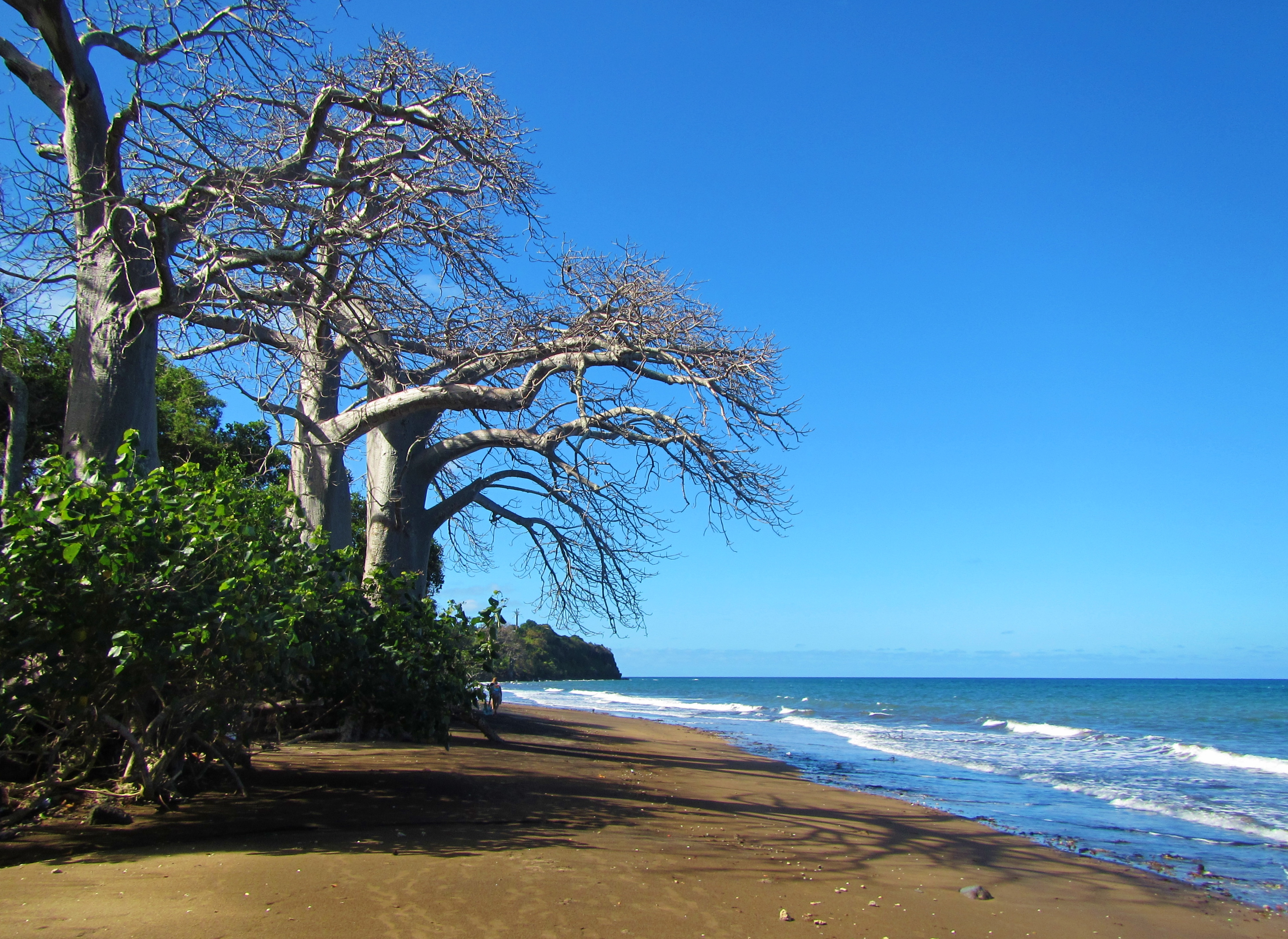 Baobabs (Adansonia digitata, Mbuyu in shimaore, the swahili language of Mayotte) along Sakouli beach, in the eastern part of the main island of Mayotte.